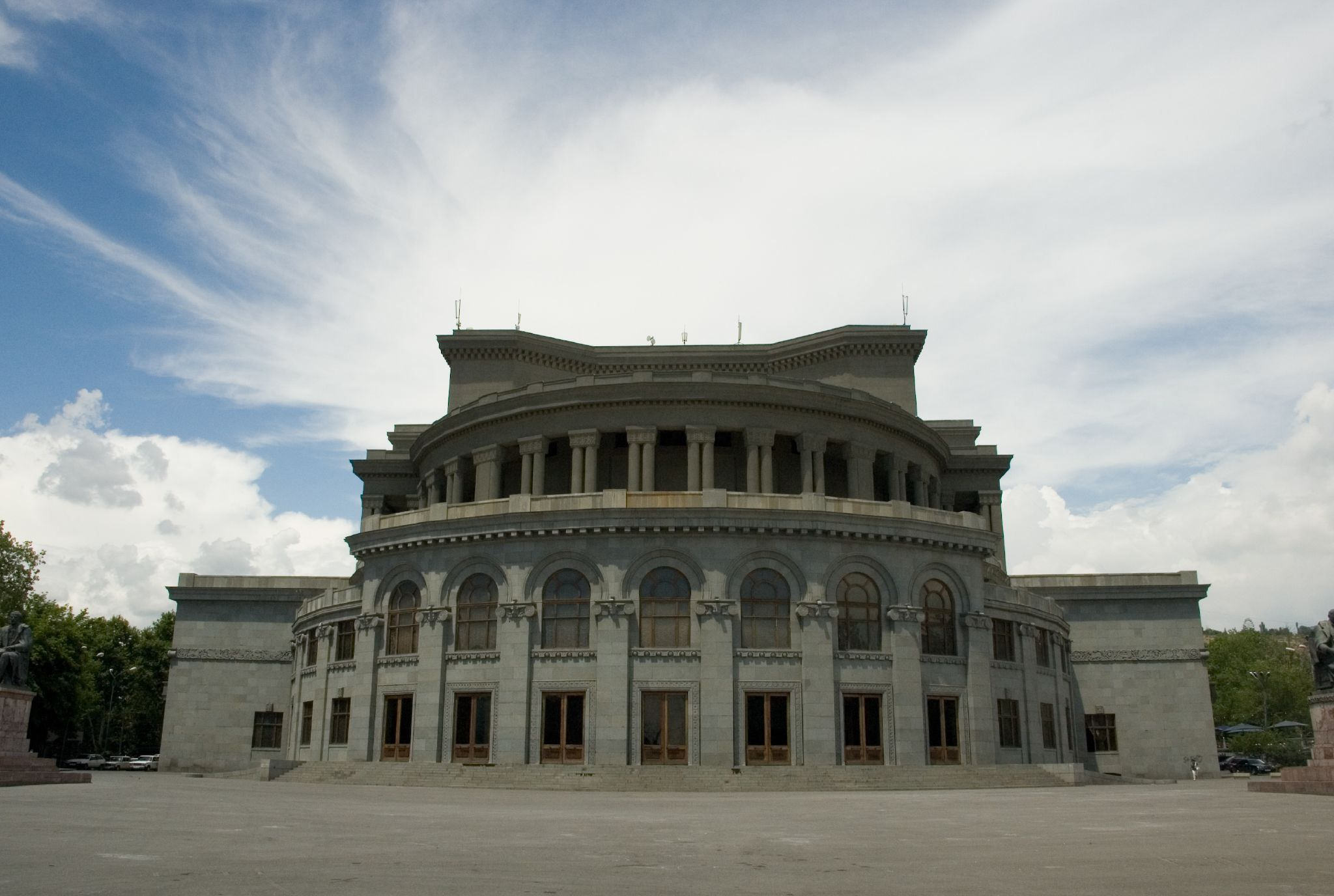 Yerevan